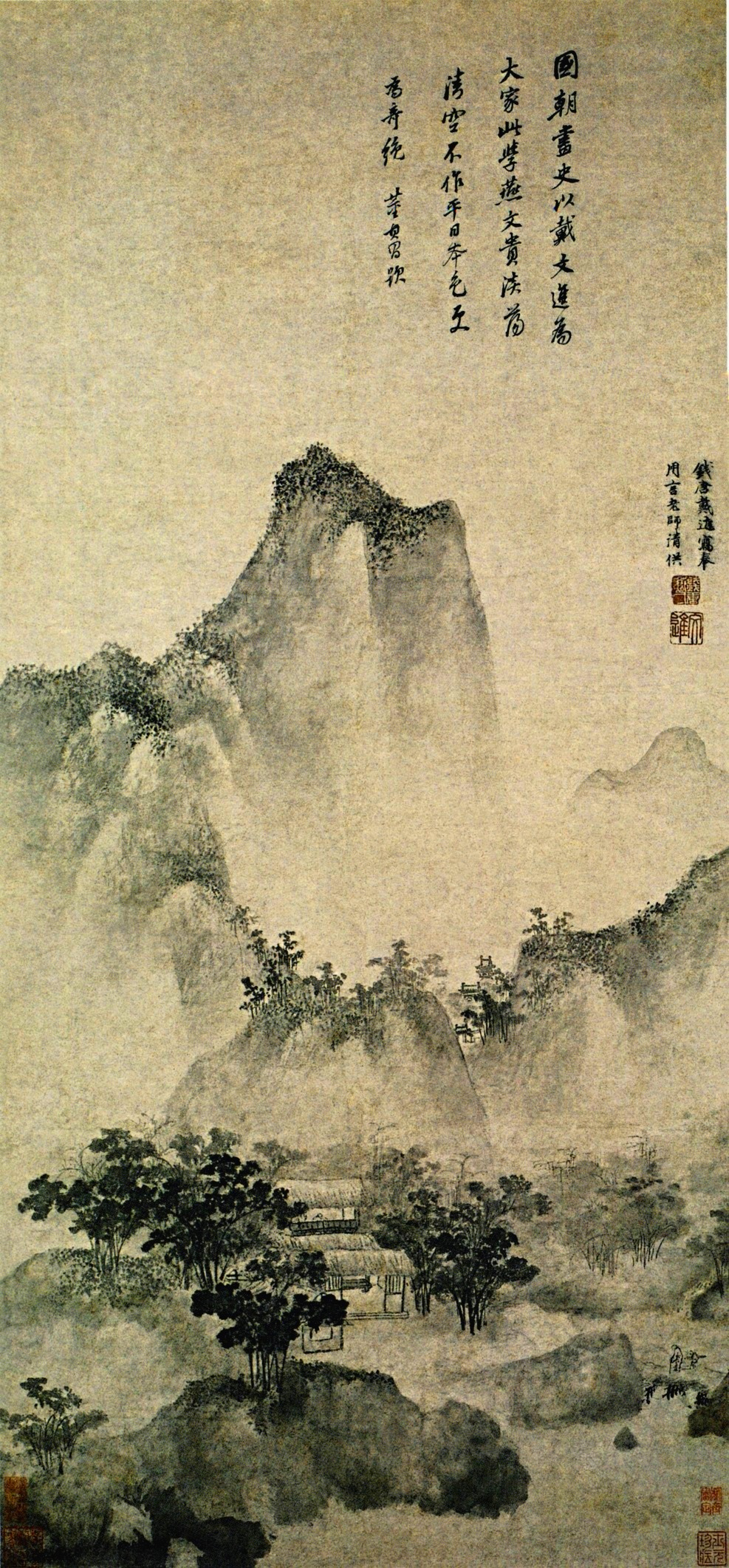 Landscape in the Style of Yan Wengui, hanging scroll, ink on paper, 91.8 x 45.9 cm. Located at the Shanghai Museum. Yan Wenhui (967-1044) was a painter during the Song Dynasty.